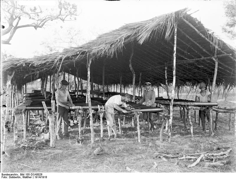 Cleaning cartridges, German East Africa - German soldiers, including a sailor from SMS Seeadler, cleaning shells under a palm roof.